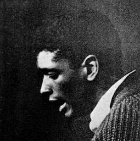 Trade ad for Vanguard artist Jackie Washington.To better adapt it to his respective Wikipedia article, the ad was cropped and cleaned in a graphics editing program. The original can be viewed at the source below.